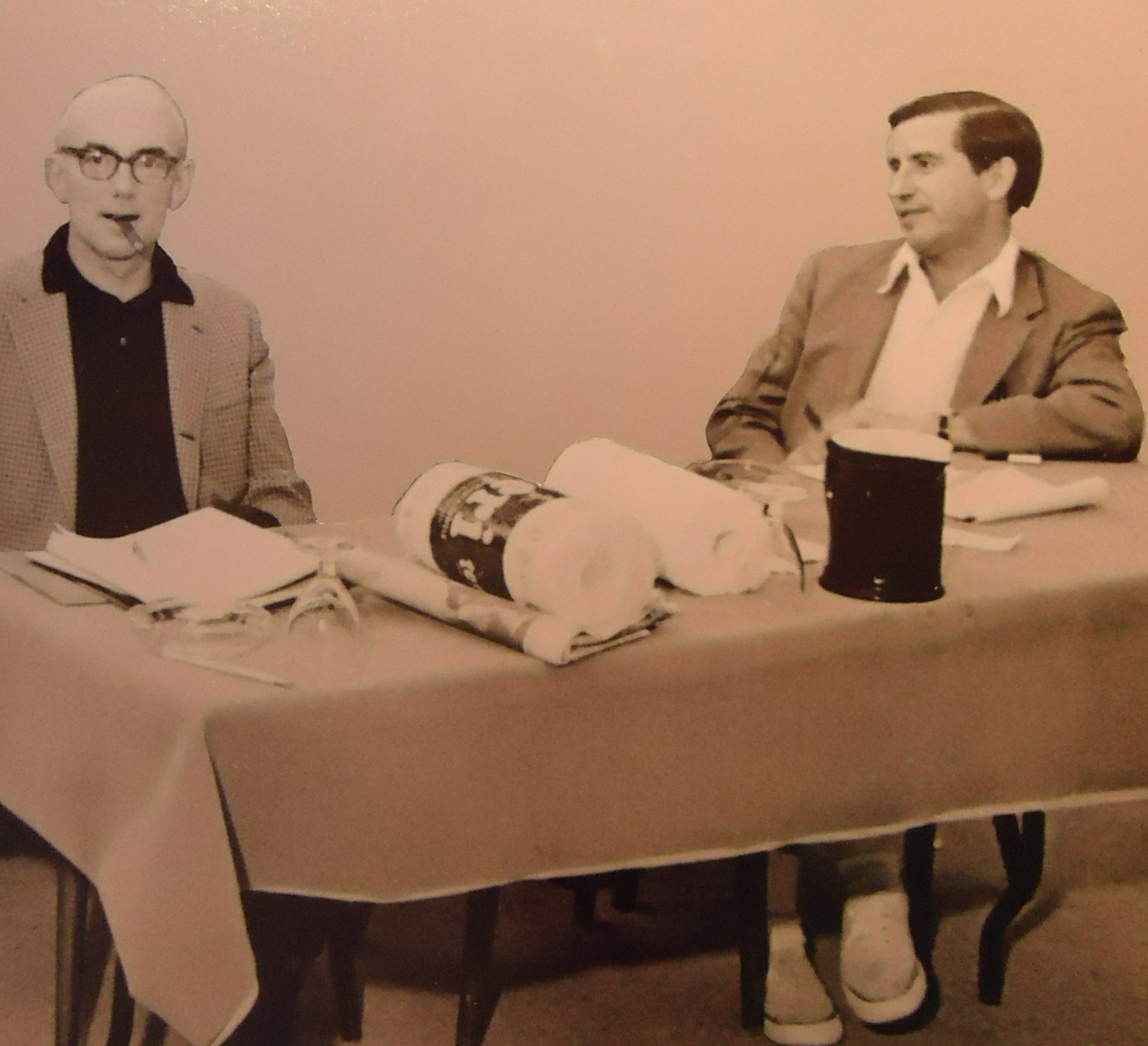 Chairman of Needham, Harper & Steers advertising agency Paul Harper (left) with advertising executive Frederick D. "Sandy" Sulcer, in a meeting in New York City in the 1970s. Original photo taken by my mother Dorothy Wright Sulcer who gives full permission; the photo-of-the-photo was taken by myself on 2012-06-09.